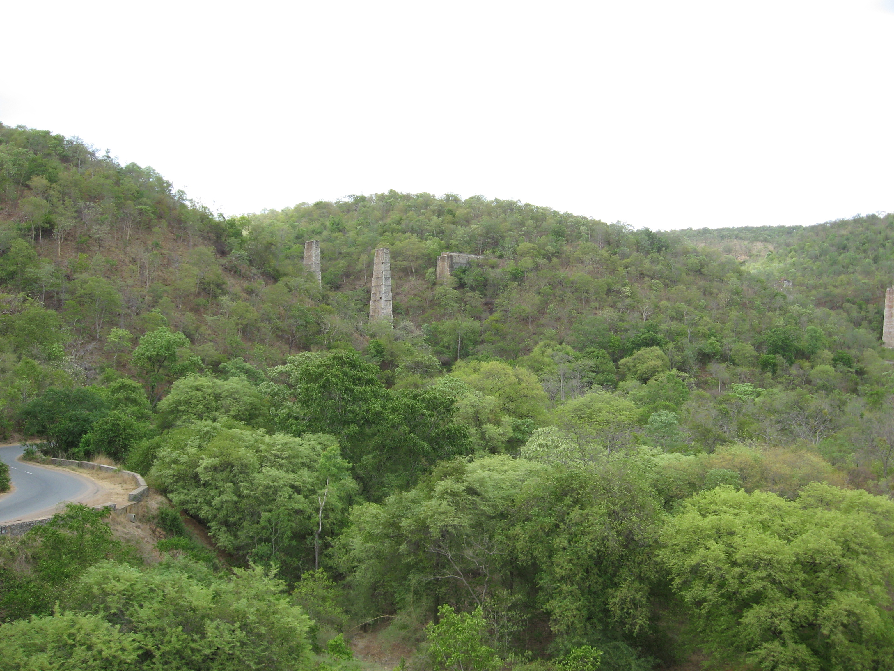 A view of the Nallamala Forests